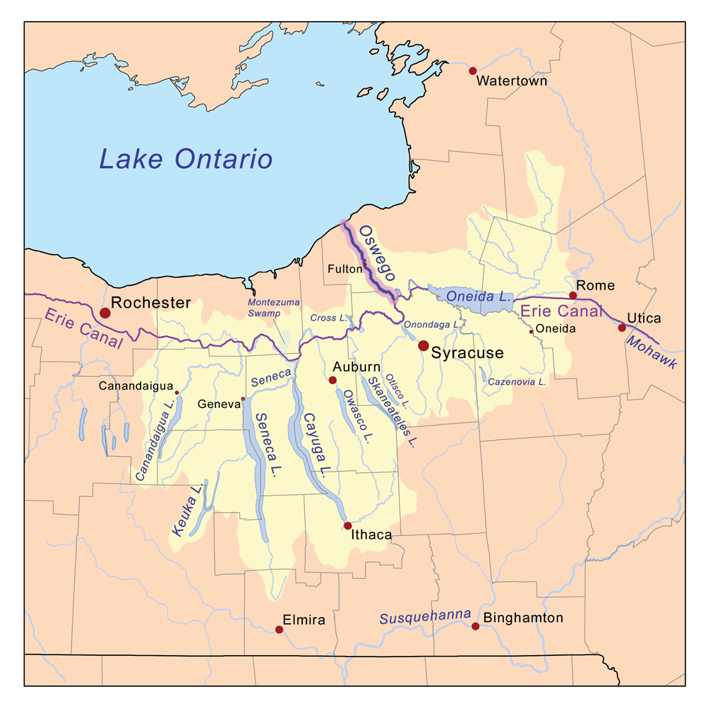 This is a map of the Oswego River drainage basin, with the Oswego River highlighted. It was created based on USGS data. The current route of the Erie Canal is shown, which differs substantially from the 1825–1916 route.